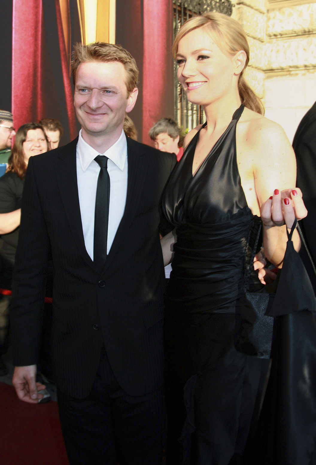 Martina Hill and Michael Kessler at the Romy TV awards (Hofburg Imperial Palace in Vienna)